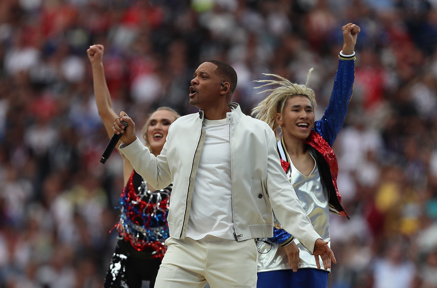 Will Smith at the close of the 2018 Soccer World Cup